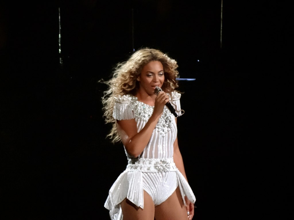 Beyonce performing in Montreal in 2013 during The Mrs. Carter Show World Tour.